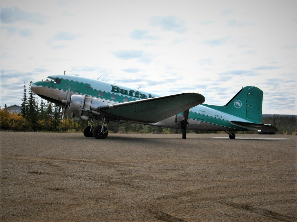 in service since 1942!